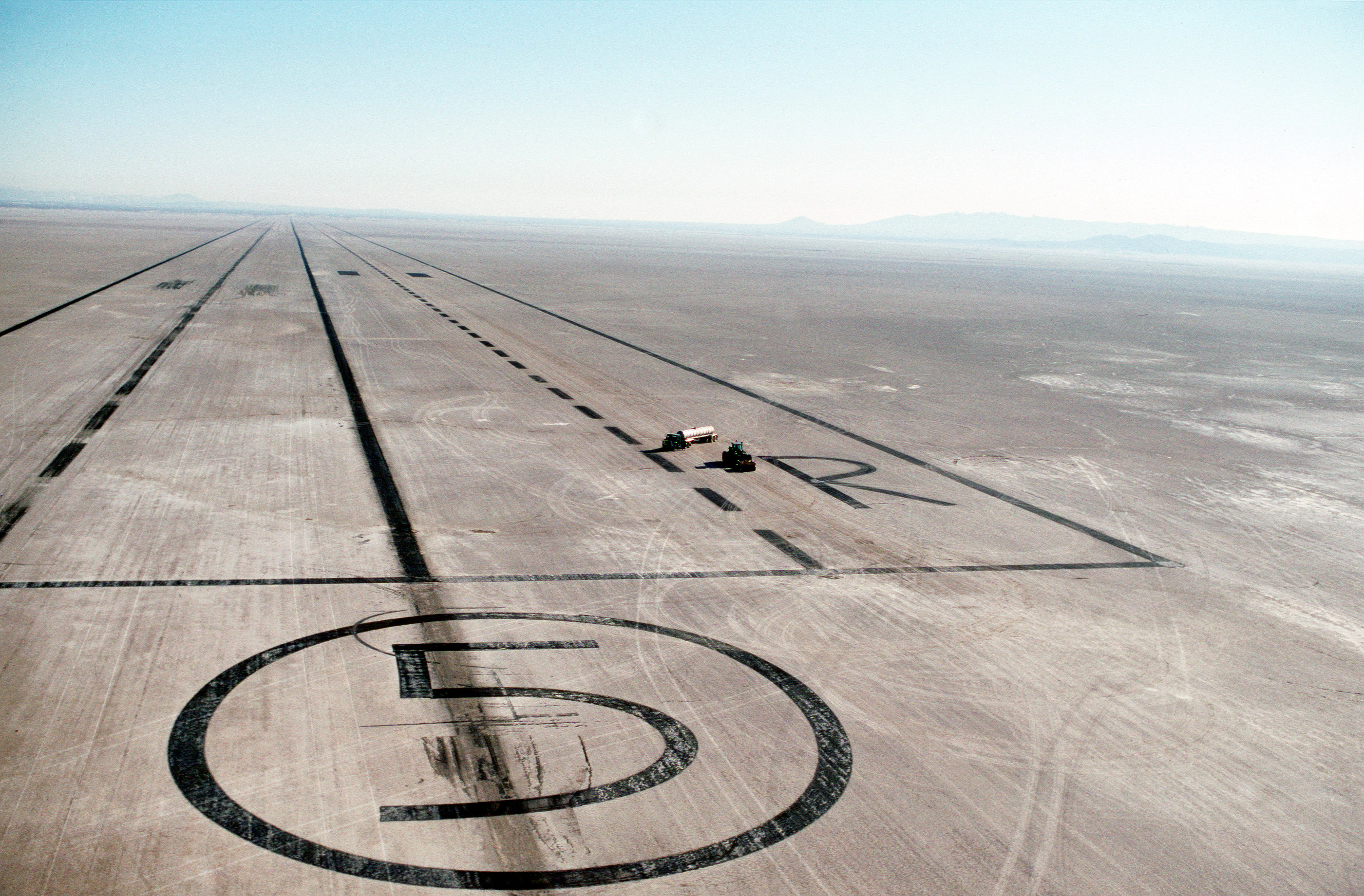 Edwards AFB Runway 5 on Rogers Dry Lake — at Edwards Air Force Base in the Mojave Desert, California. Maintenance vehicles cross the end of Runway 5R/23L on Rogers Dry Lake. Runway 5 isn't the fifth runway on Edwards; at heading 50° it's the right runway and at heading 230° it's the left runway. The dry lake, which covers more than 60 square miles, has 17 runways that provide ample landing space for test aircraft, space shuttles and aircraft unable to make a normal landing due to damage or equipment failure. Rogers Dry Lake is a National Historic Landmark, and on the National Register of Historic Places in Kern County.